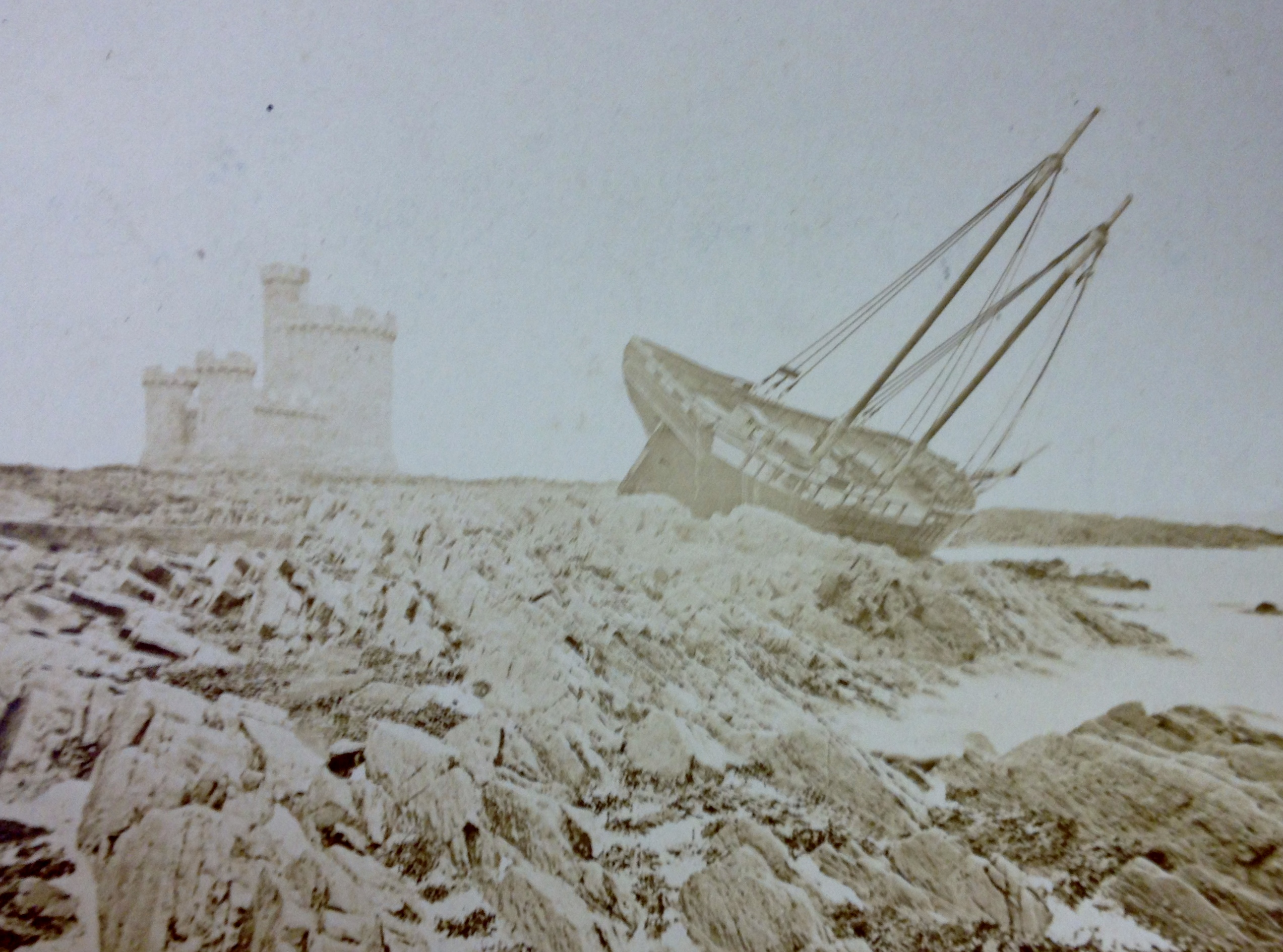 The Dublin sailing ship Thomas Parker, pictured wrecked on the Conister Rock.